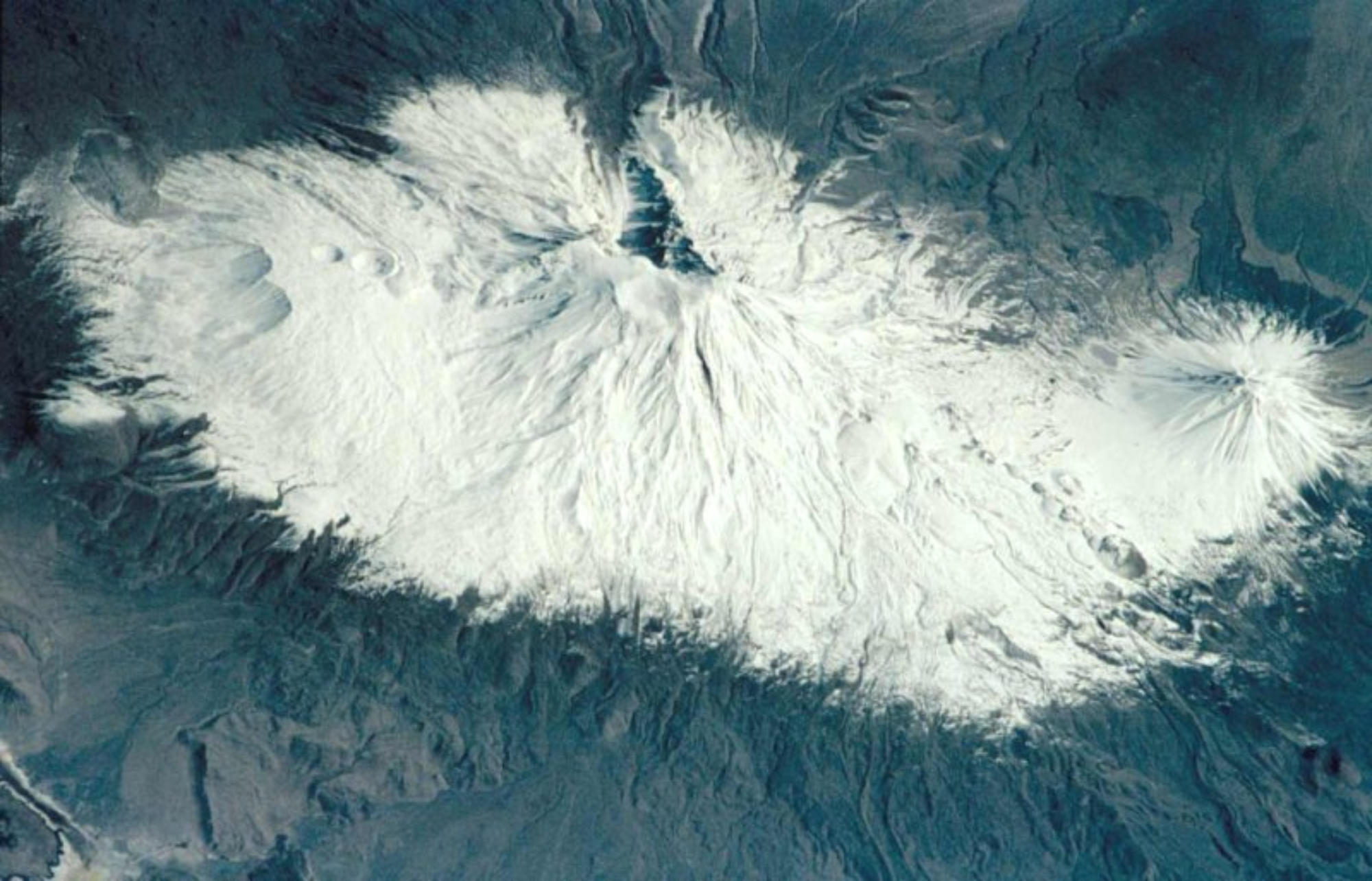 Mount Ararat (16,940 feet, 5165 m) is the largest volcano in Turkey. Although not currently active, its most recent eruption has probably been within the last 10,000 years. It is located in extreme northeastern Turkey, near the borders with Iran and Armenia. Southwest of the main peak lies Little Ararat (12,877 feet, 3896 m). Ahora Gorge is a northeast-trending chasm dropping 6000 feet from the top of the mountain and was the focus of a major earthquake in 1840. A number of claims by different explorers to have found remnants of Noah’s Ark on Mt. Ararat have led to continuing expeditions to the mountain, many of which have focused their searches on the gorge area. Image STS102-344-23 was taken from the Space Shuttle on 18 March 2001 using a 35-mm film camera. Courtesy of the Earth Sciences and Image Analysis Laboratory, Johnson Space Center. Additional images taken by astronauts and cosmonauts can be viewed at the NASA-JSC Gateway to Astronaut Photography of Earth.